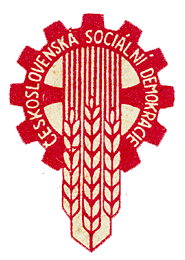 Symbol of the Czechoslovak Social Democracy.